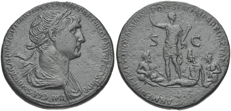 Traianus. AD 98-117. Æ Sestertius (33mm, 26.29 g, 6h). Rome mint. Struck AD 116-117. IMP CAES NER TRAIANO OPTIMO AVG GER DAC PARTHICO P M TR P COS VI P P, laureate and draped bust right ARMENIA ET MESOPOTAMIA IN POTESTATEM P R REDACTAE, Traianus standing facing, head right, holding parazonium and spear; at feet to left and right, seated figures of Armenia, Euphrates, and Tigris. RIC II 642; Banti 29. VF, dark brown surfaces, minor roughness. Unusually complete legends. Trajan's final campaign was sparked by Parthia's replacement of the pro-Roman king of Armenia with one of their own in 114 AD. Armenia had been a strategic and semi-independent kingdom which served as an important buffer between Parthia and Rome. The last conflict overt this region, during Nero's reign, resulted in a delicate balance that stabilized the situation for over fifty years. The move by Parthia now upset the balance and posed a threat to Rome's wealthy Syrian cities. Trajan’s campaign was swift and decisive; by 115 AD, Armenia was restored as a Roman client state. To secure the eastern frontier, he then moved southward through Mesopotamia, and captured the Parthian capital, Ctesiphon, in 116 AD. Although short-lived, these victories were celebrated on much of Trajan's later coinage.�